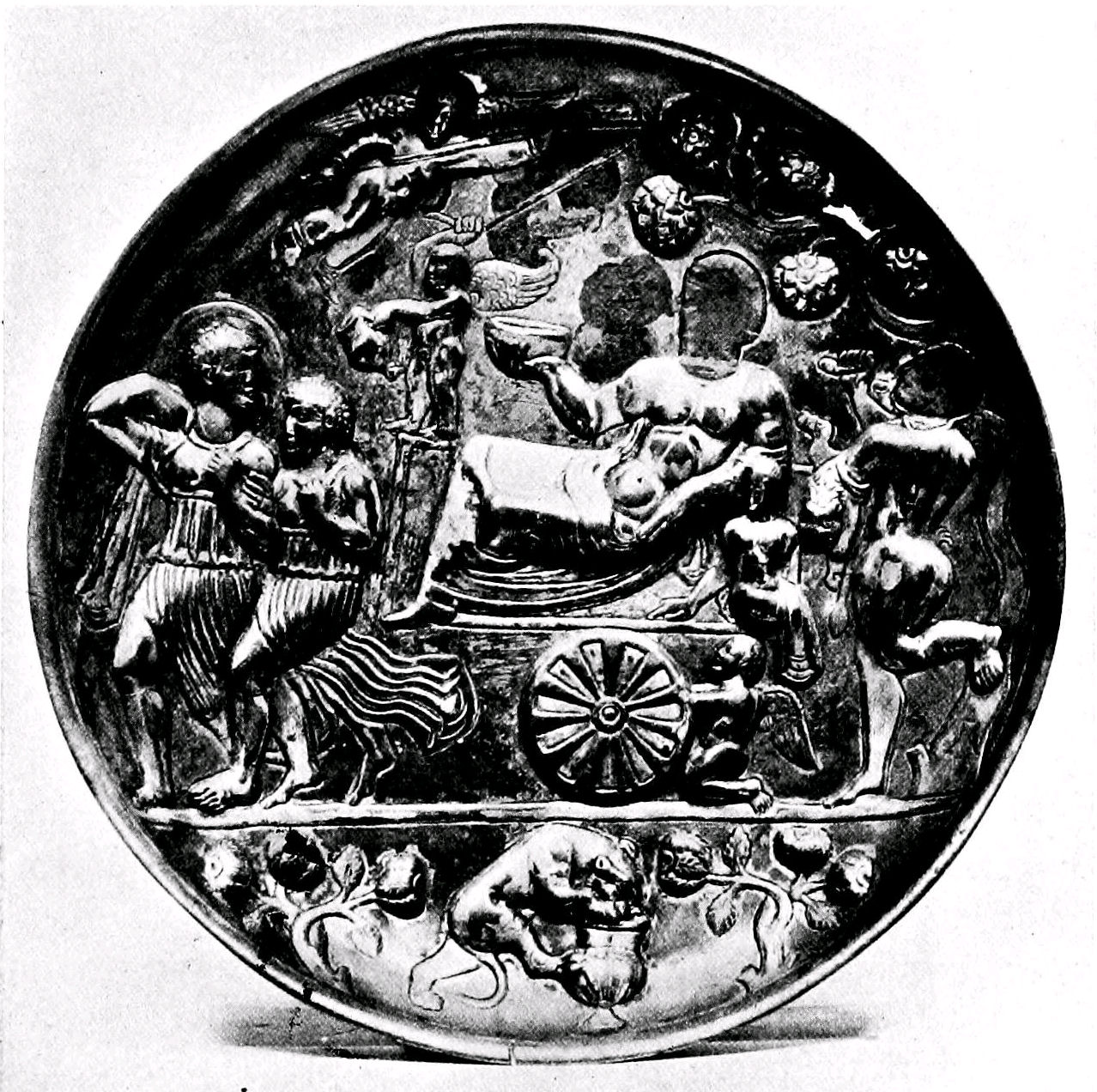 Badakshan patera Triumph of Bacchus British Museum. For a drawing